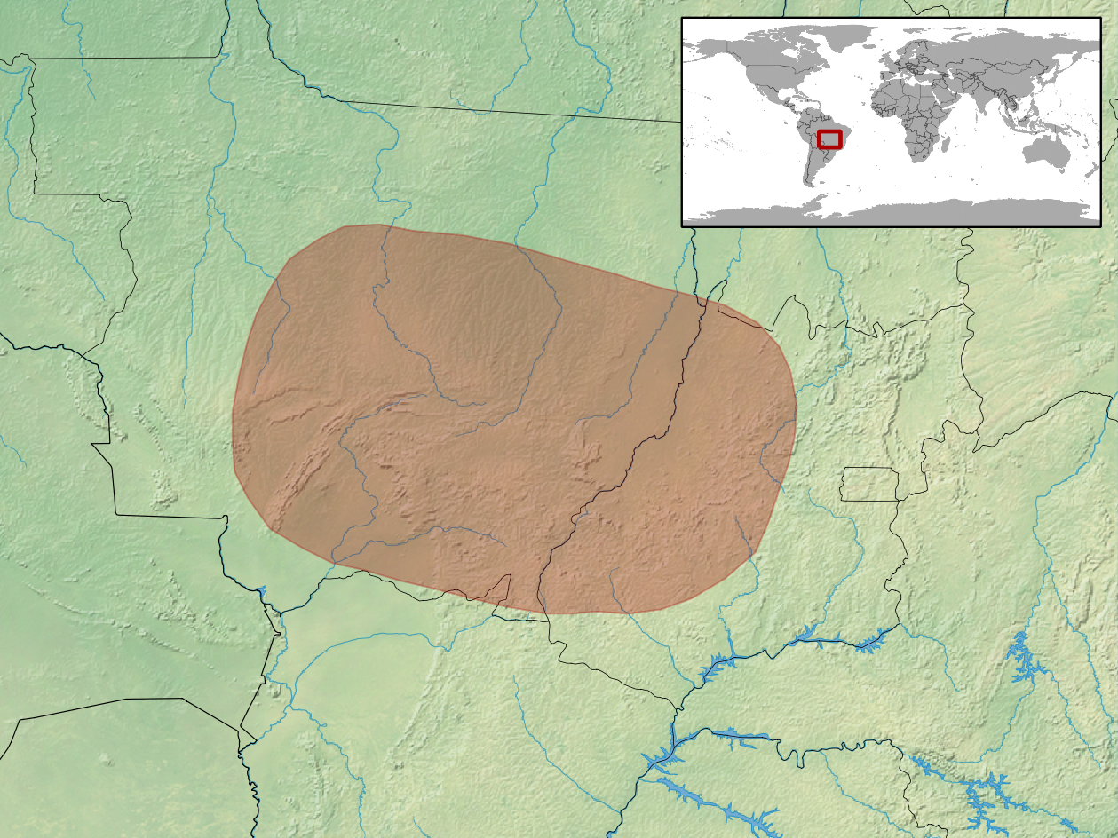 geographic distribution of Amphisbaena neglecta (Native: Brazil)